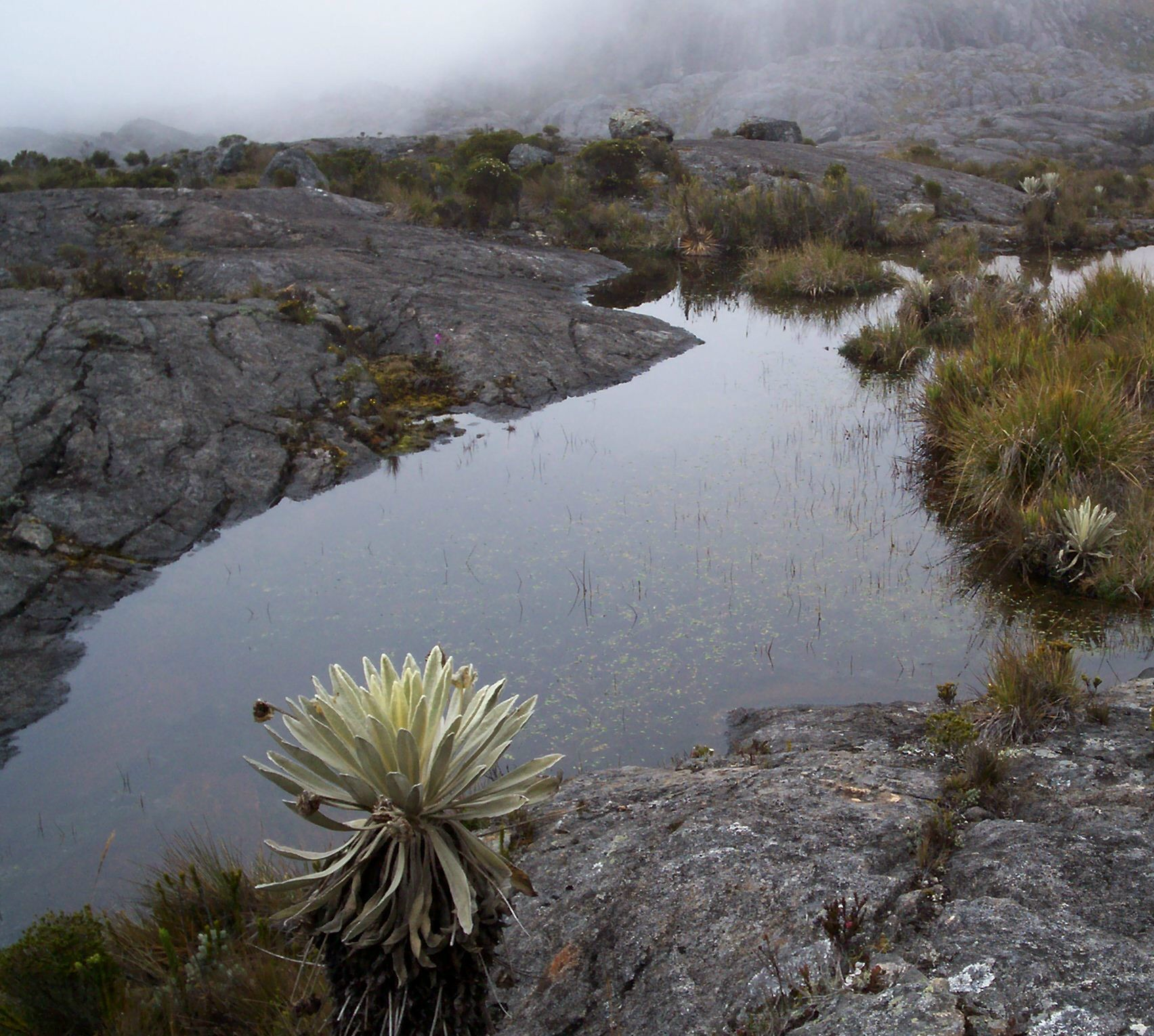 Lake La Hermosa ("The Beautiful") in the Protected area "Sisavita", Norte de Santander, Colombia